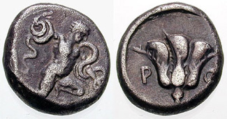 Islands off Caria. Rhodes. Circa 405/404 BC. AR Tridrachm or Disiglos (11.09 g). Infant Heracles wrestling with two snakes P-O, rose.